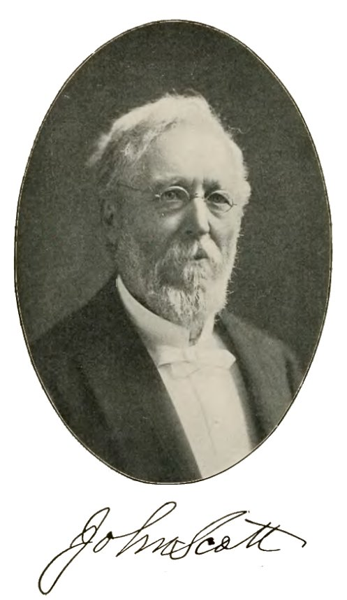 Illustration in History of Iowa From the Earliest Times to the Beginning of the Twentieth Century